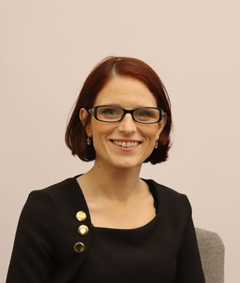 irish politician Violet-Anne Wynne of Sinn Féin, taken in 2020.